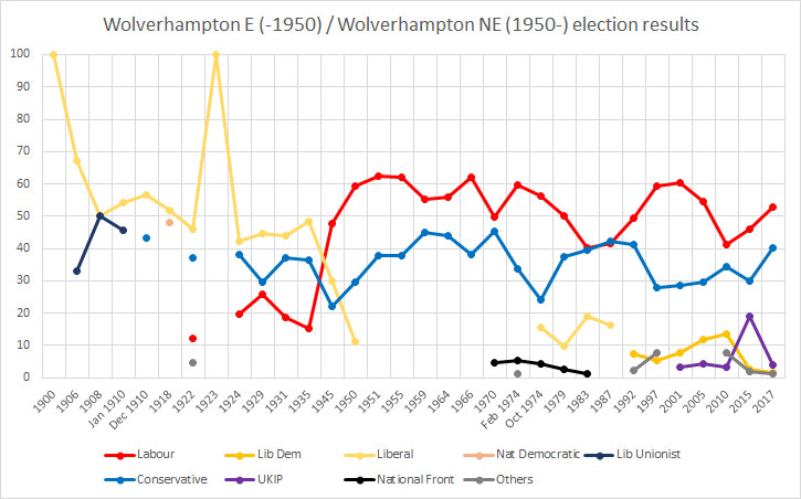 Wolverhampton NE election results